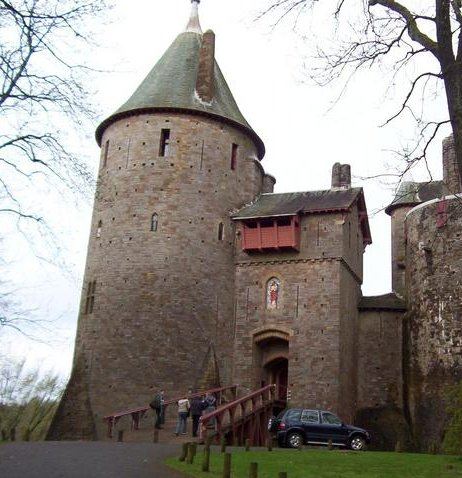 Castell Coch, Wales Taken by Varitek